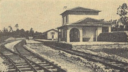 Barreiros Railway Station under construction. This station, later known as Maia, was part of the Guimarães Railway, in Northern Portugal. This photograph was published in the Gazeta dos Caminhos de Ferro magazine No. 1060, of 16th February 1932, and scanned by the Hemeroteca Municipal de Lisboa.